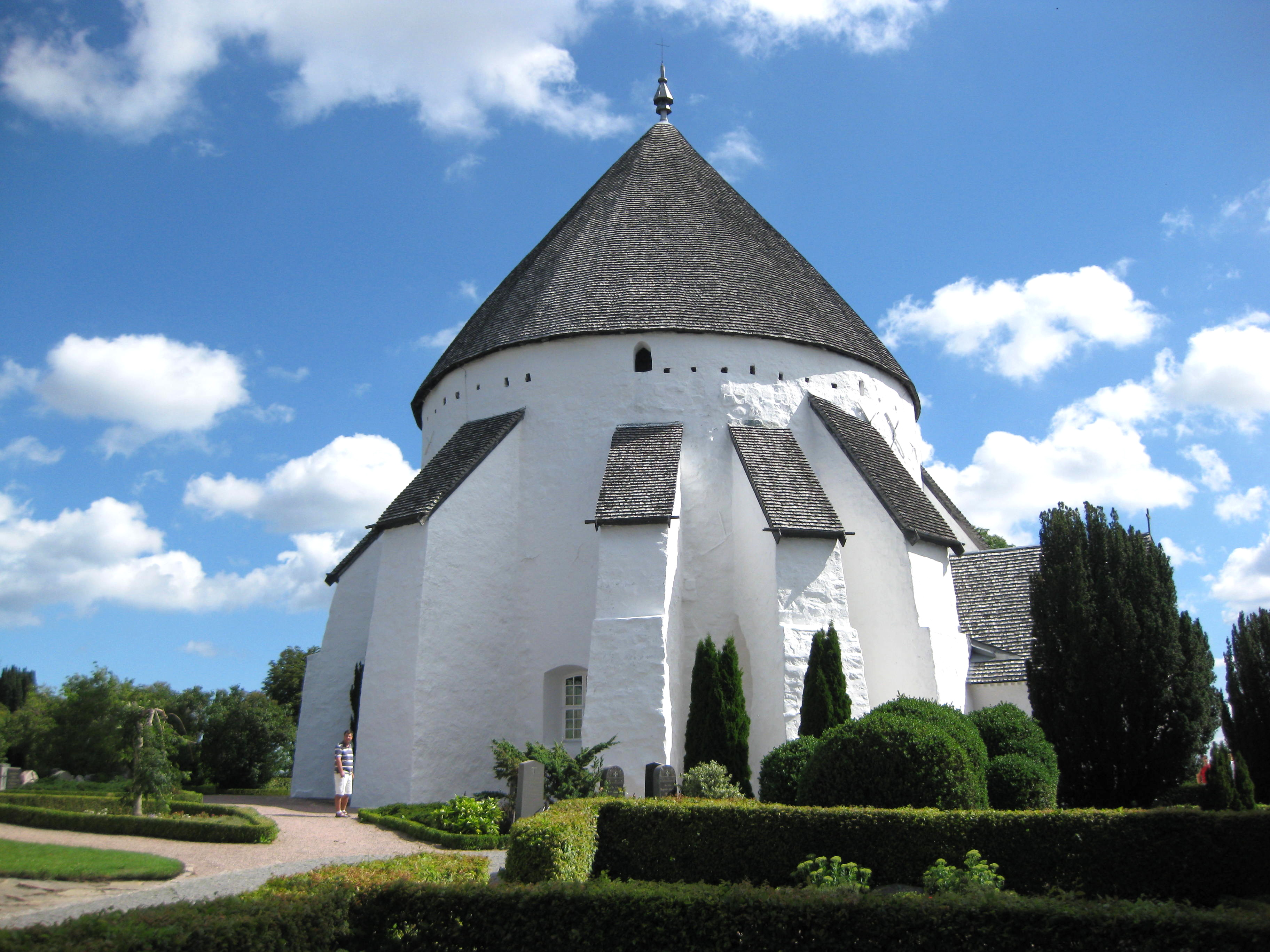 The church "Østerlars Kirke" located on the island Bornholm in east Denmark.